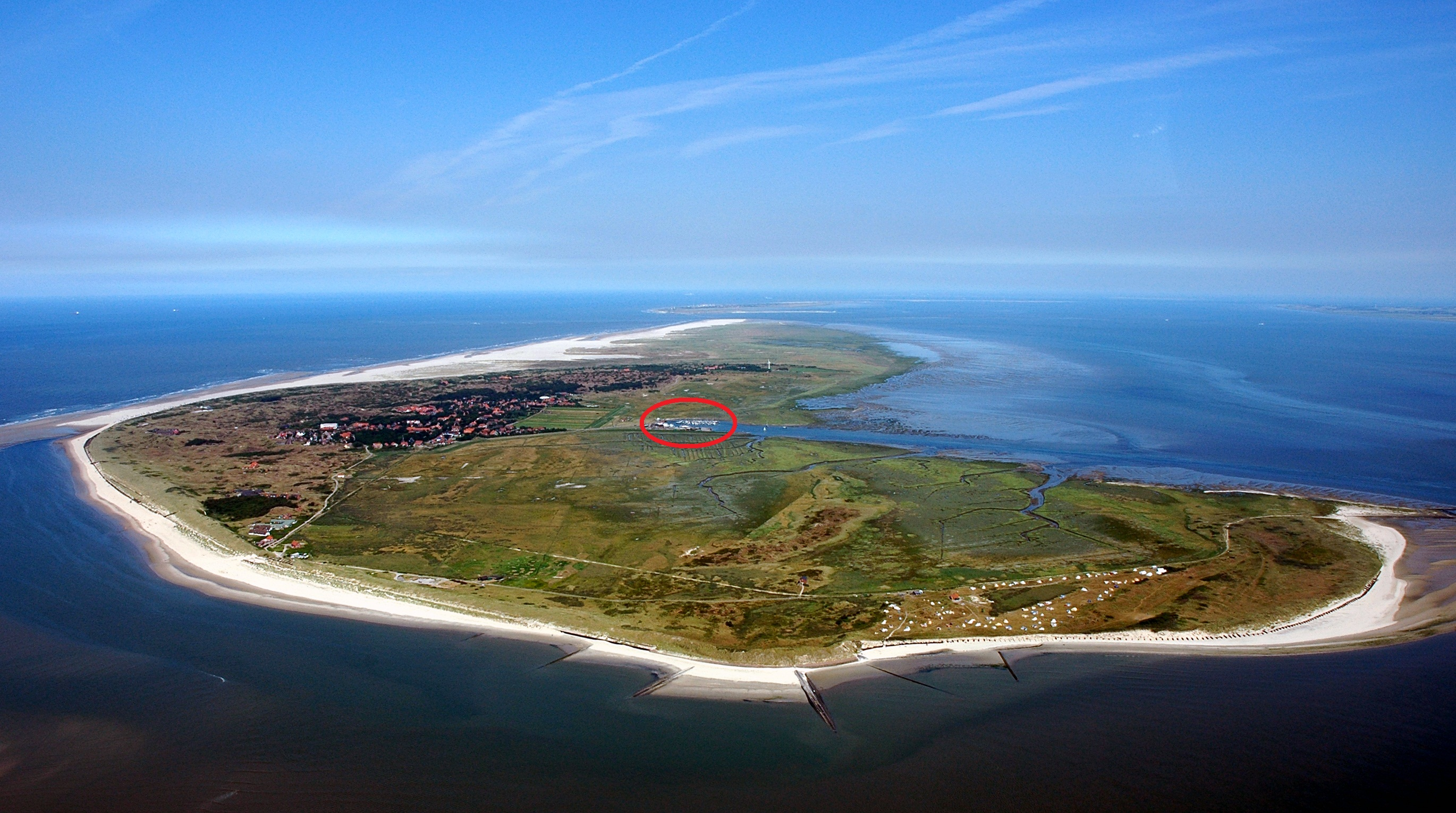 Hafen Spiekeroog